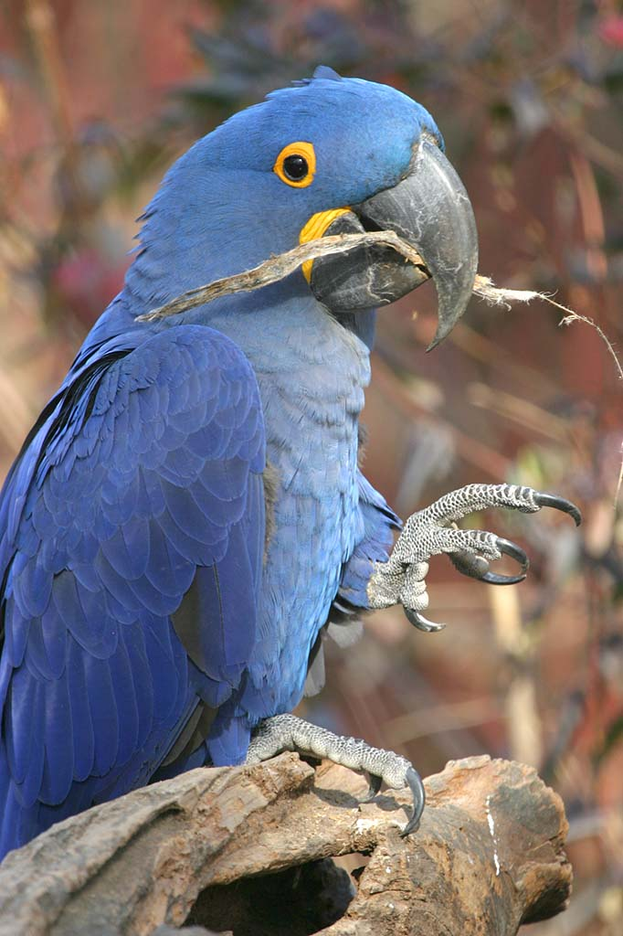 Photo of a Hyacinth Macaw - Taken at the Nashville Zoo on January 9th, 2006